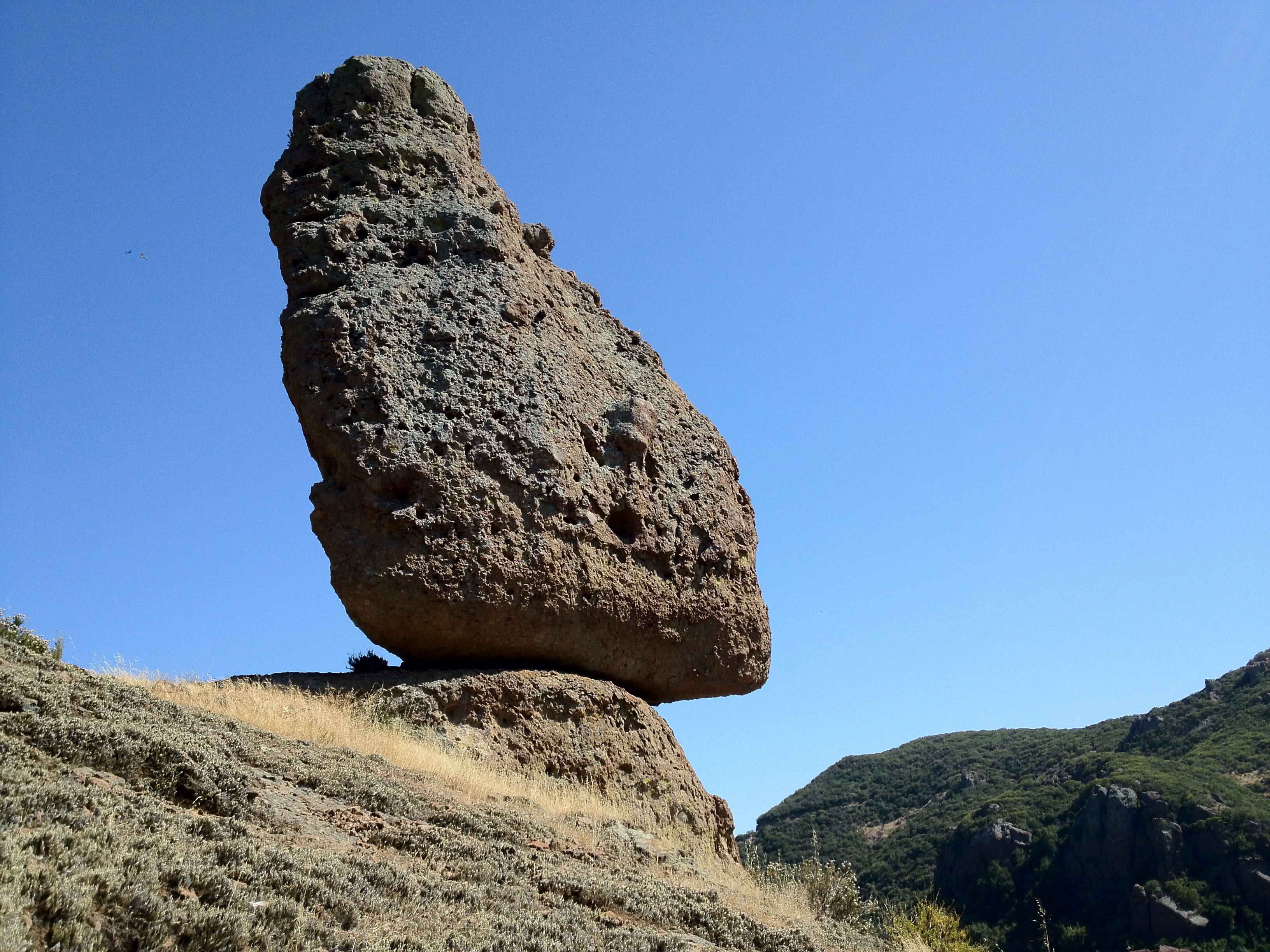 'Balance Rock' — in the Santa Monica Mountains, Southern California. On the Mishe Mokwa Trail, in western Santa Monica Mountains National Recreation Area.